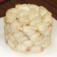 Colossal size crab meat from Blue Swimming Crab. Courtesy of Newport International.